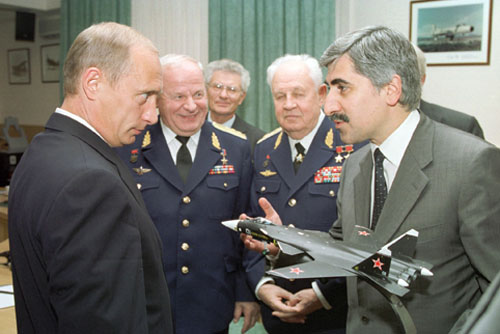 MOSCOW. President Putin visiting the Sukhoi Aviation Military Industrial Complex. Mikhail Pogosyan, CEO of the complex, presenting a fighter model of the Sukhoi Su-47 to President Putin (August 16, 2002).